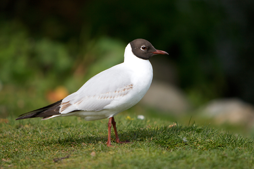 Black-headed Gull (Larus ridibundus), taken in Østre Anlæg in Aalborg, Denmark.